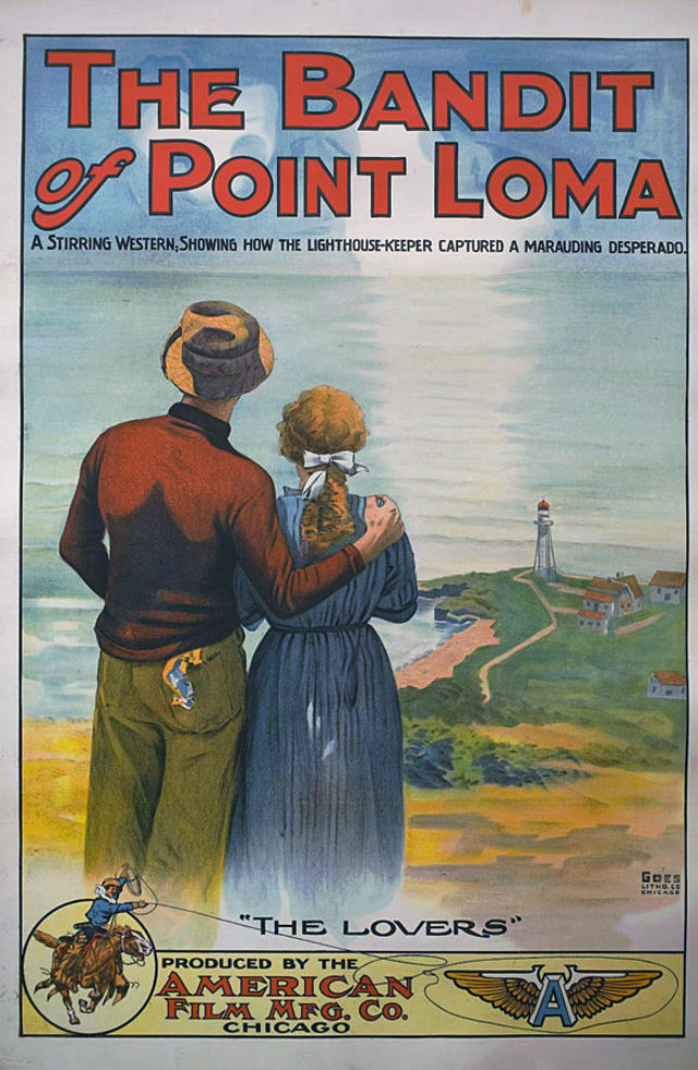 Poster for the 1912 film The Bandit of Point Loma.